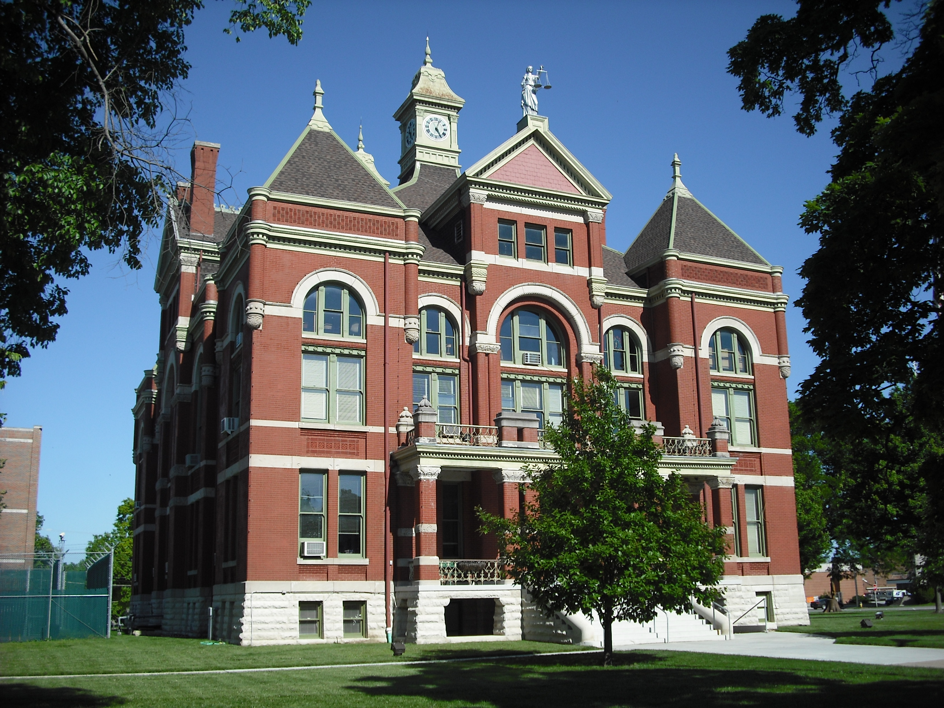 Franklin County Courthouse, located along Main Street in Ottawa, Kansas, United States. Built in 1892, the Romanesque courthouse is listed on the National Register of Historic Places.